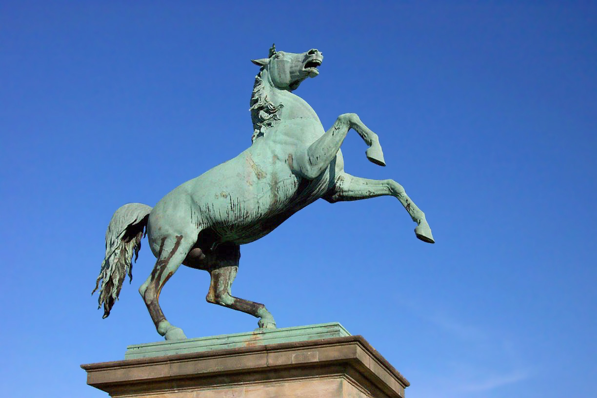 Bronze statue of the "Sachsenross" ("Saxon Horse"), created by sculptor Albert Wolff in 1865, now standing in front of the "Welfenschloss" Palace, home of the Hannover University